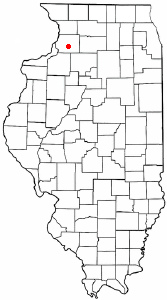 Category:Illinois city locator maps